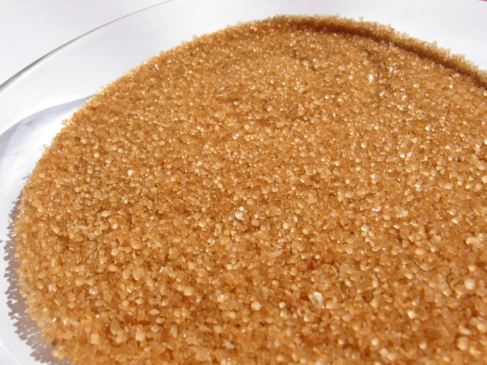 Kandisfarin, a brown candy sugar